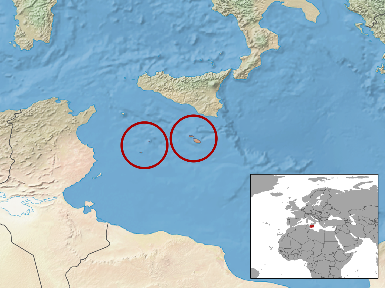 geographic distribution of Podarcis filfolensis